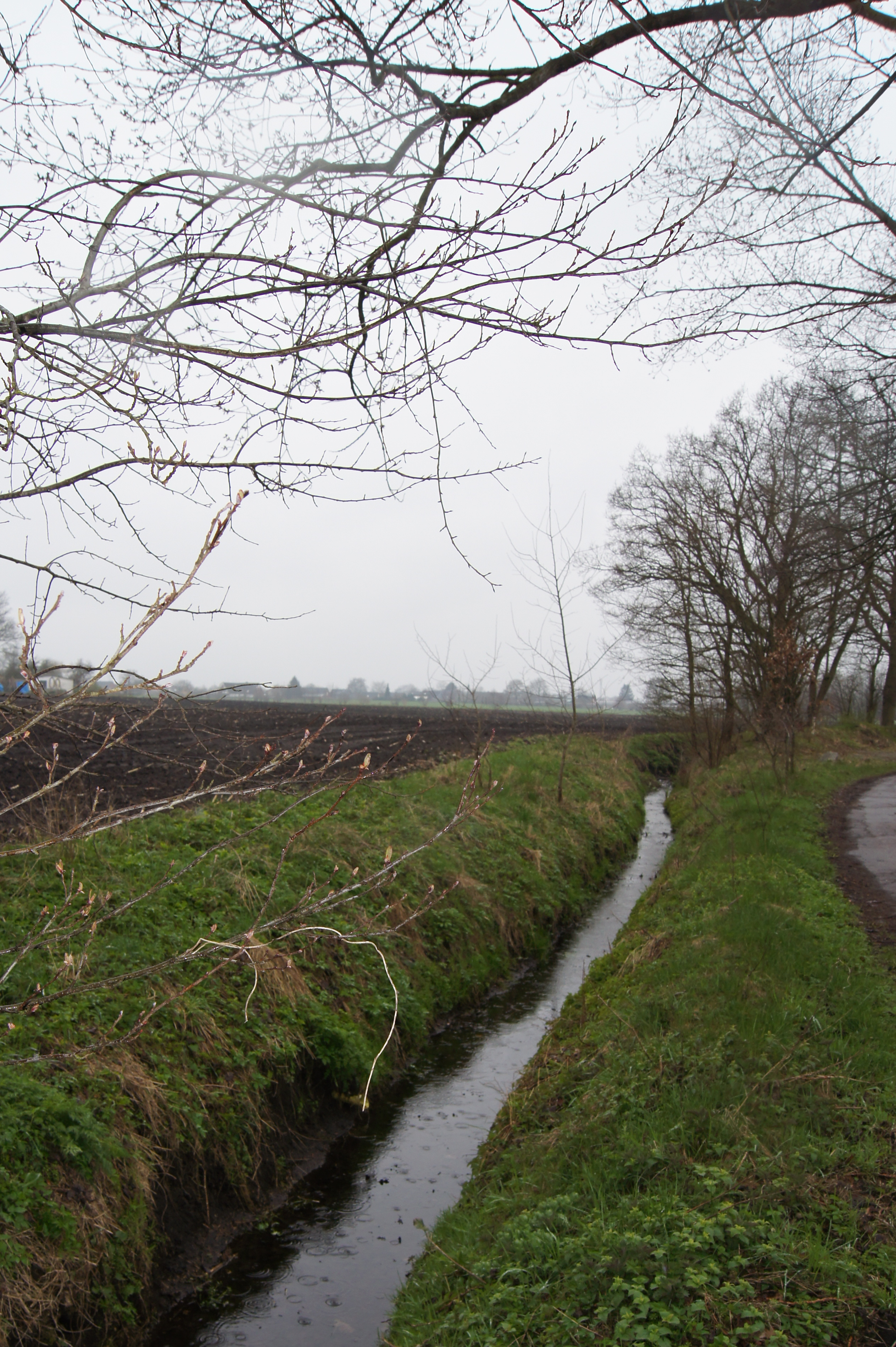 Bilsen, Germany: The river Bilser Bek